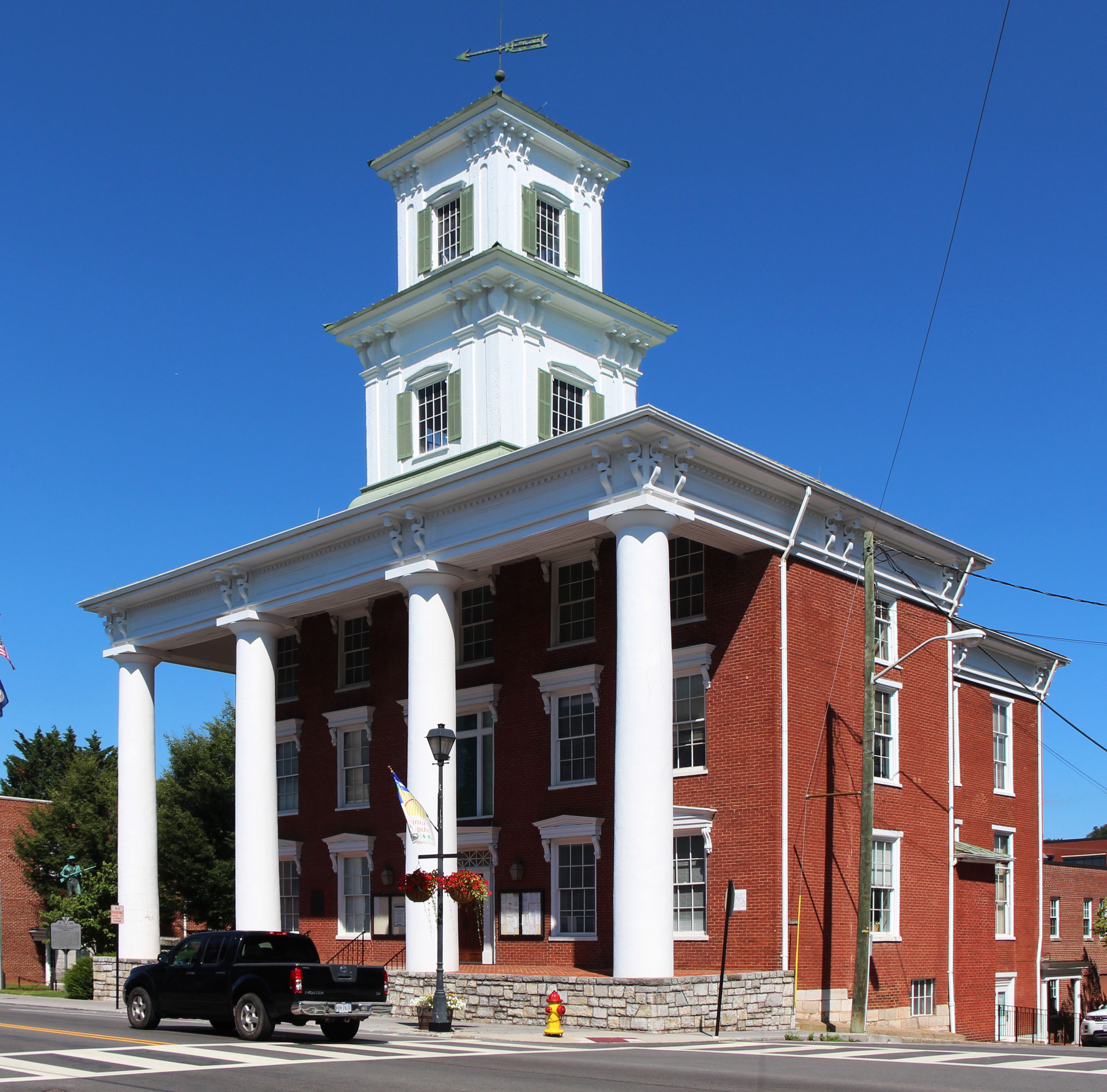 Washington County Courthouse, Abingdon, VA